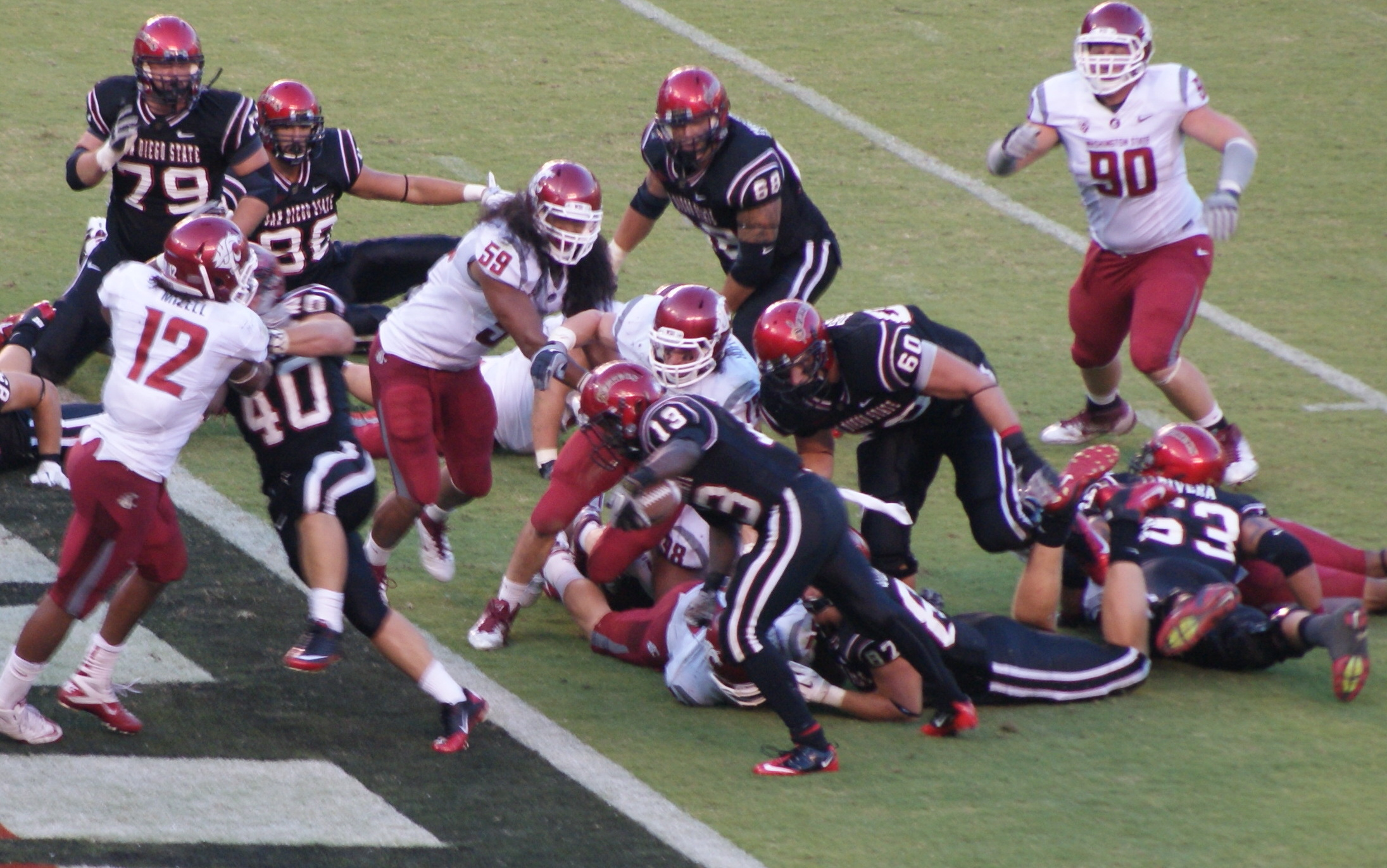 Ronnie Hillman's 1 yard touchdown run, the third of four touchdown runs to beat Washington State 42-24, September 17, 2011 at Qualcomm Stadium.